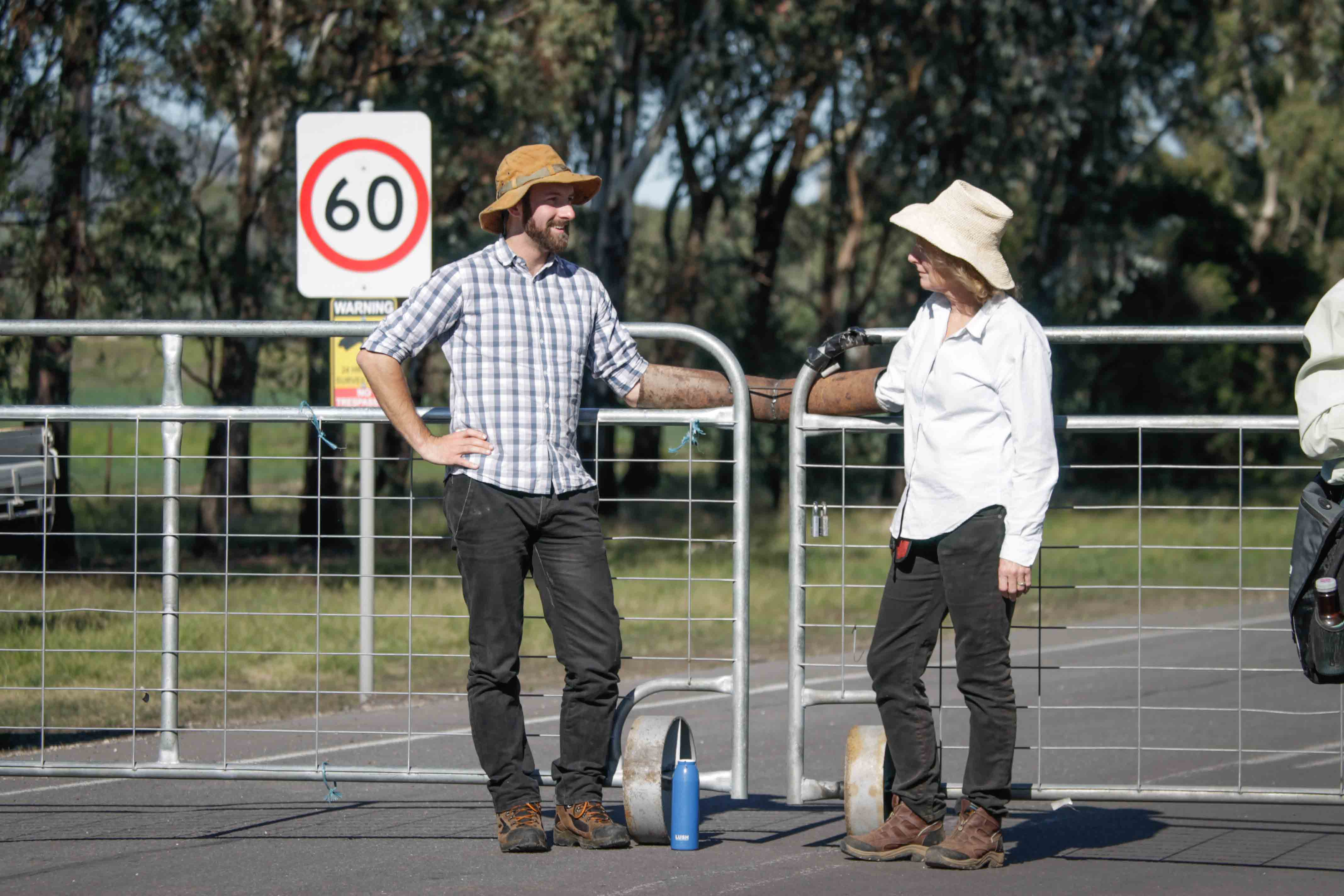 Mother and son use a V arm tube to lock on to a gate as part of a blockade protesting against coal mining in the Leard State Forest, New South Wales.